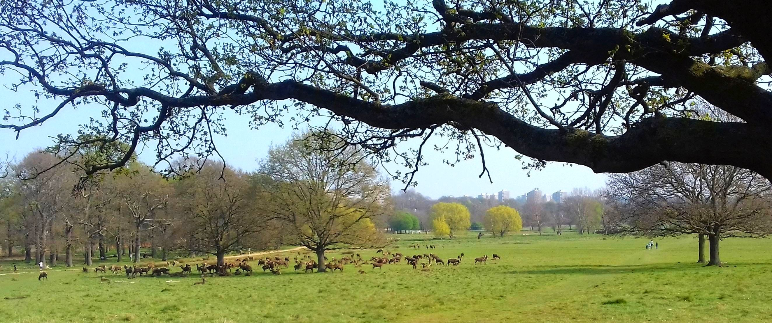 Richmond Park London View